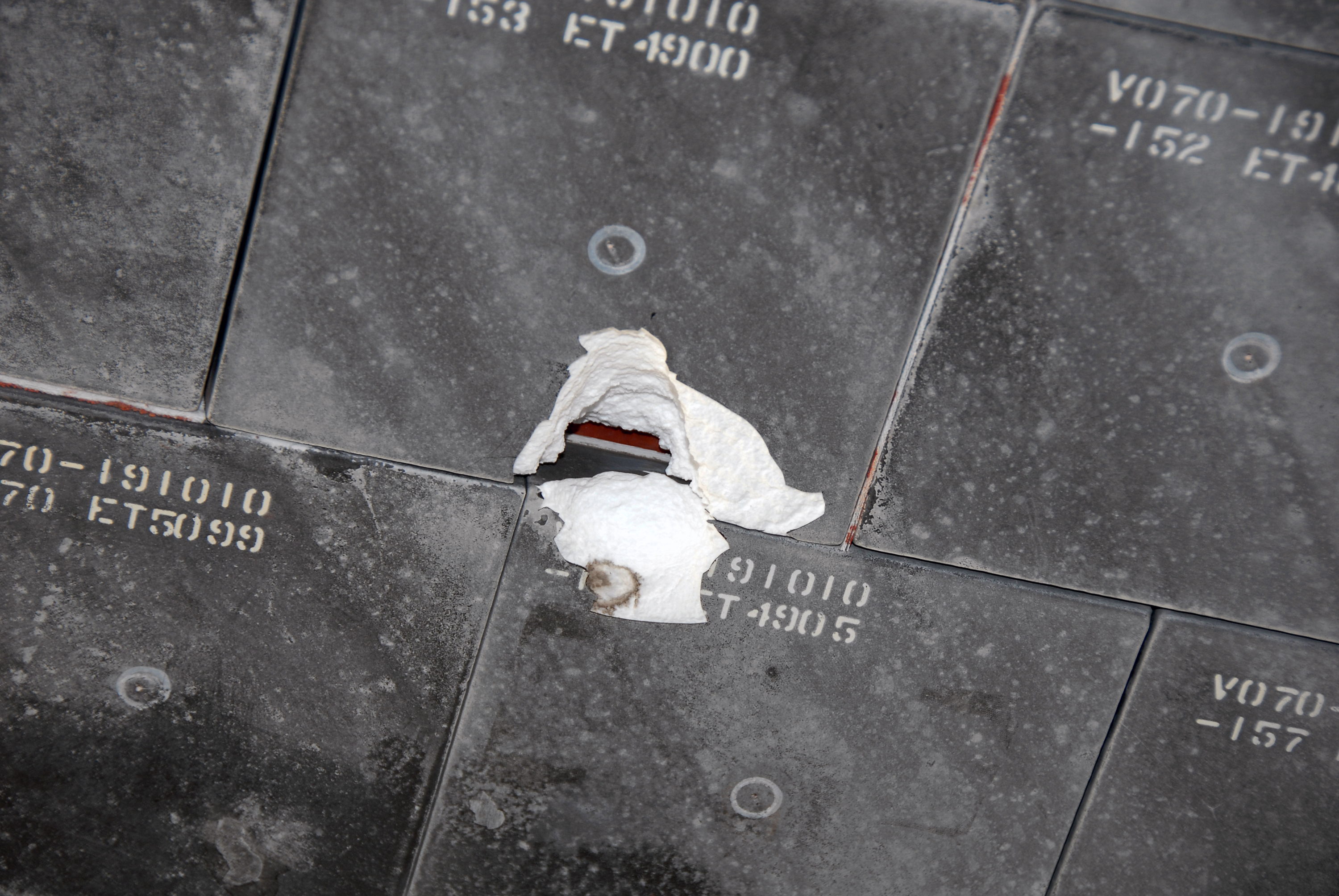 KENNEDY SPACE CENTER, FLA. -- This is a view of the underside of Endeavour taken after its landing on runway 15 at NASA's Kennedy Space Center. The damage to the tiles occurred from a piece of foam on the external tank during launch of Space Shuttle Endeavour on mission STS-118 on Aug. 8. After extensive engineering analysis of such images and testing on the ground, the Mission Management Team decided the tile did not pose a risk to the crew during re-entry. Endeavour landed safely at 12:32 p.m. EDT at NASA's Kennedy Space Center after a 13-day mission to the International Space Station. The STS-118 mission installed a new gyroscope, an external spare parts platform and another truss segment to the expanding station.